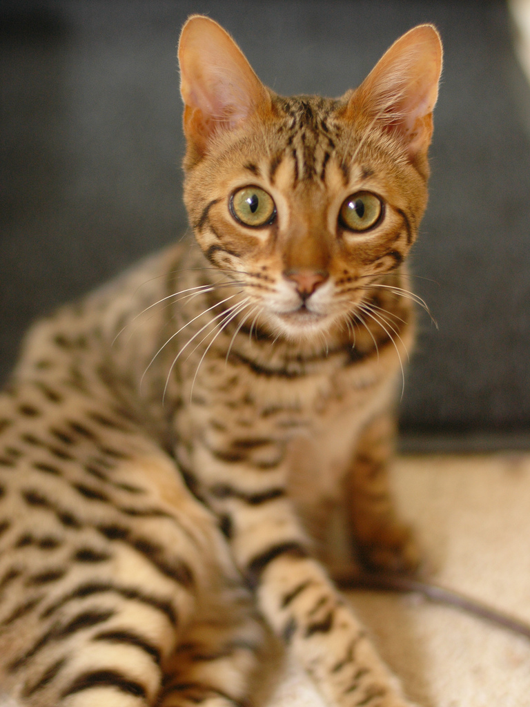 Bengal cat